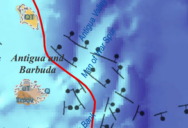 Geologic Map Antigua Barbuda, where Q is Quaternary alluvium, QT is Quaternary and Tertiary marine limestone, sandstone, and shale, uT is Post-Eocene marine strata, and TmoV is Miocene and Oligocene volcanic rocks